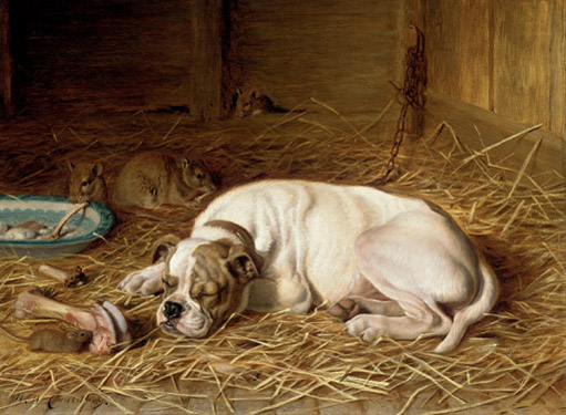 An Old Bulldog. "Caught napping" by Horatio Henry Couldery (British, 1832–1918). Oil on canvas (